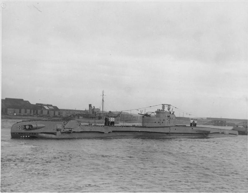 British T class submarine HMSM TRESPASSER under tow at Barrow.